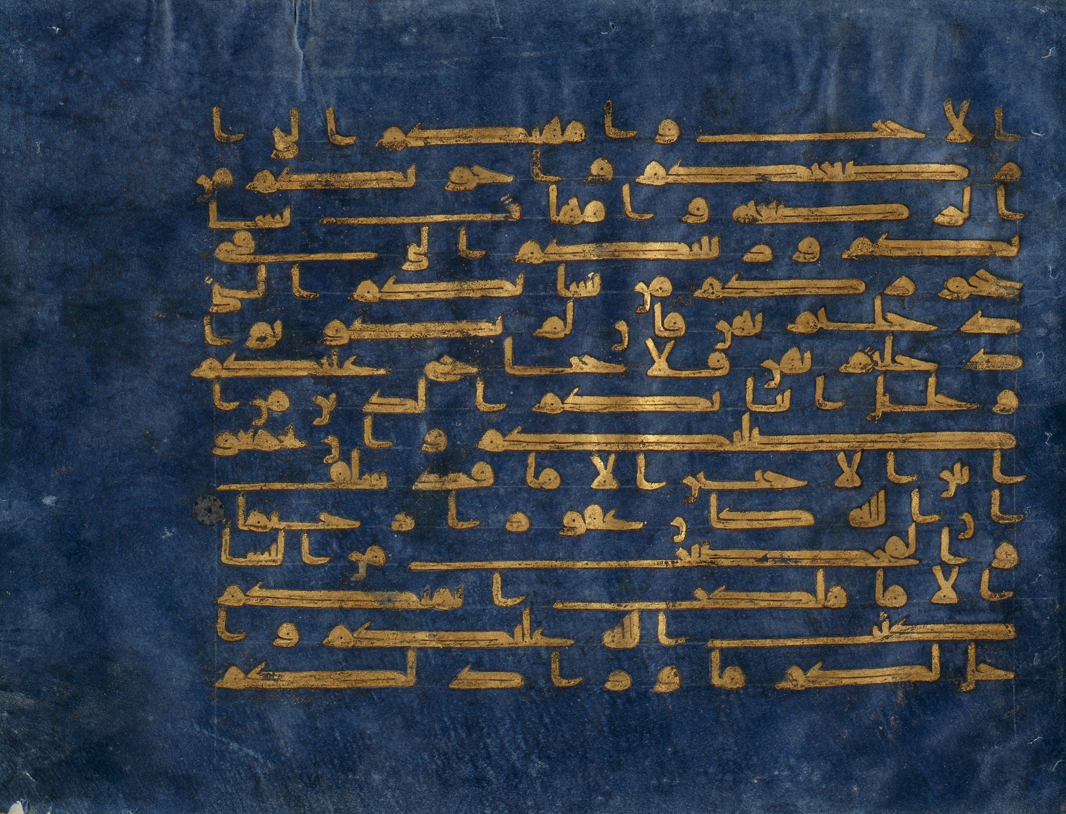 Tunisia, probably Qairawan, early 10th century Manuscripts Gold and red ink on parchment dyed blue The Nasli M. Heeramaneck Collection, gift of Joan Palevsky (M.86.196) Islamic Art